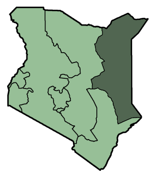 Northeastern Province of Kenya